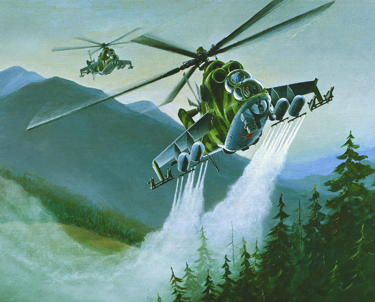 SOVIET MI-24 HIND DELIVERING CHEMICAL SPRAY The USSR maintained the world's largest stockpile of chemical warfare agents in the 1980s. Virtually all conventional systems used by the Soviets--mortars, artillery pieces, helicopters such as these Mi-24 HINDs, aircraft, and long-range tactical missiles--could deliver chemical munitions.